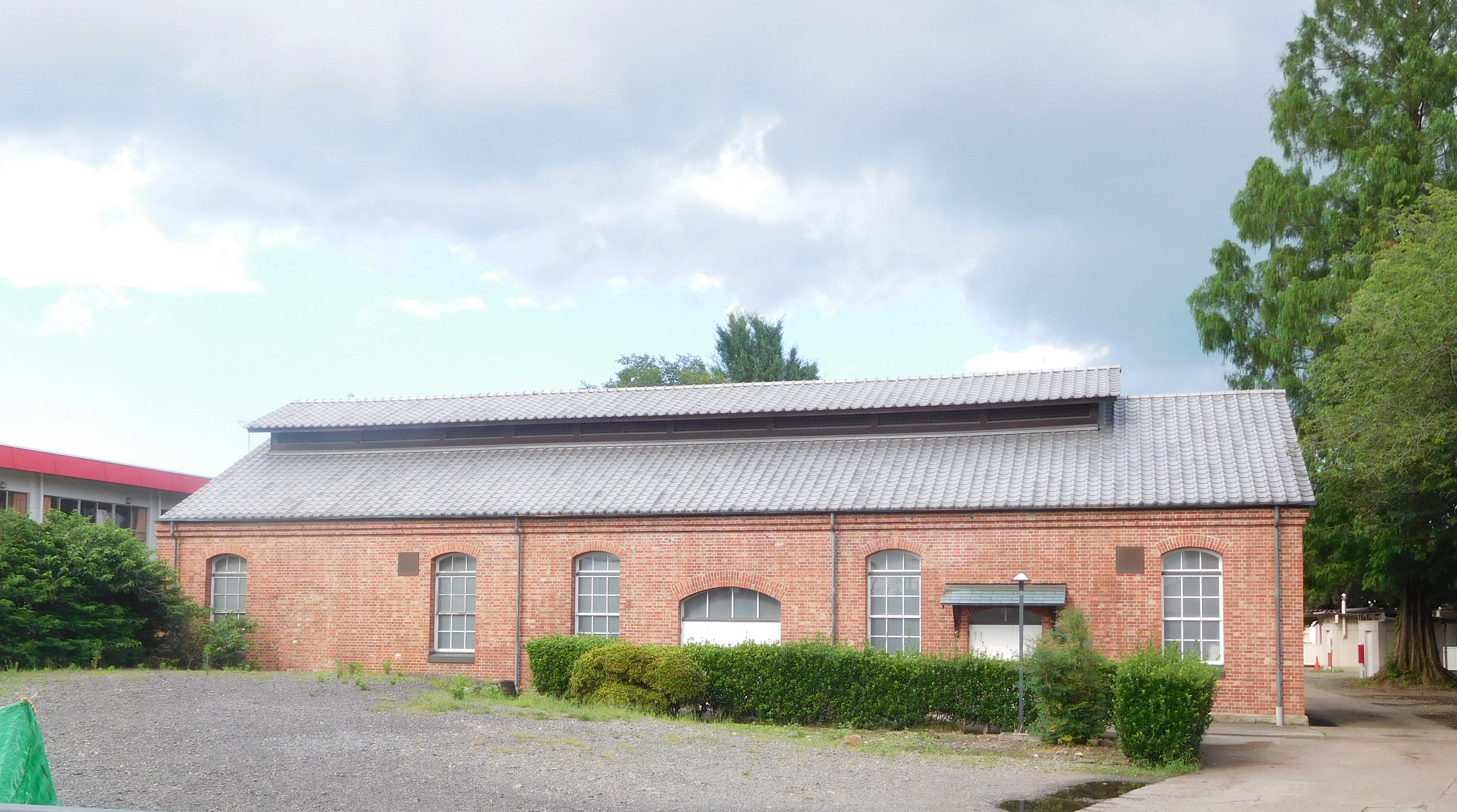 This is the red brick warehouse of Utsunomiya Central Girls' High School in Utsunomiya, Tochigi, Japan.